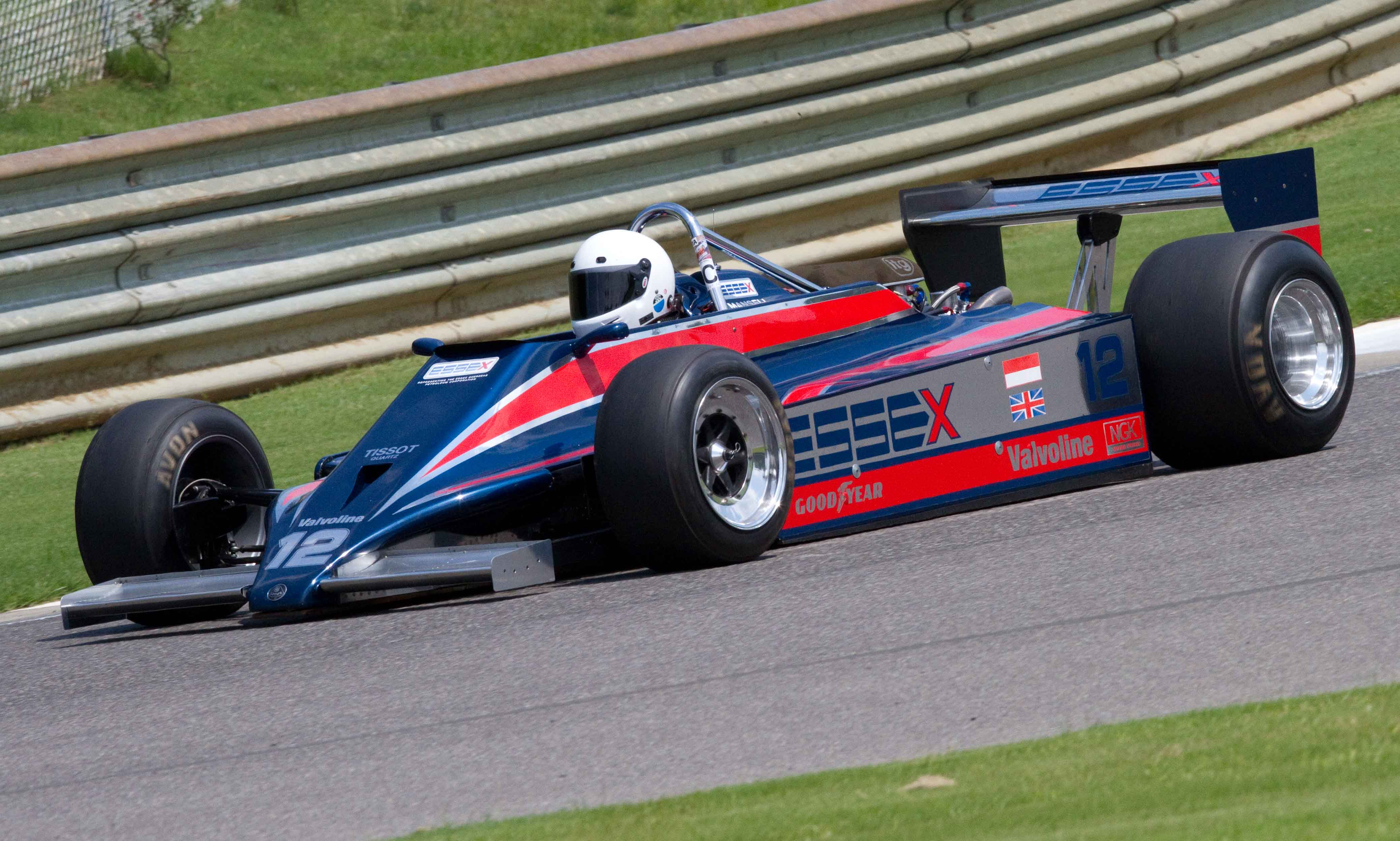 Lotus 81 at Barber Motorsports Park, 2010